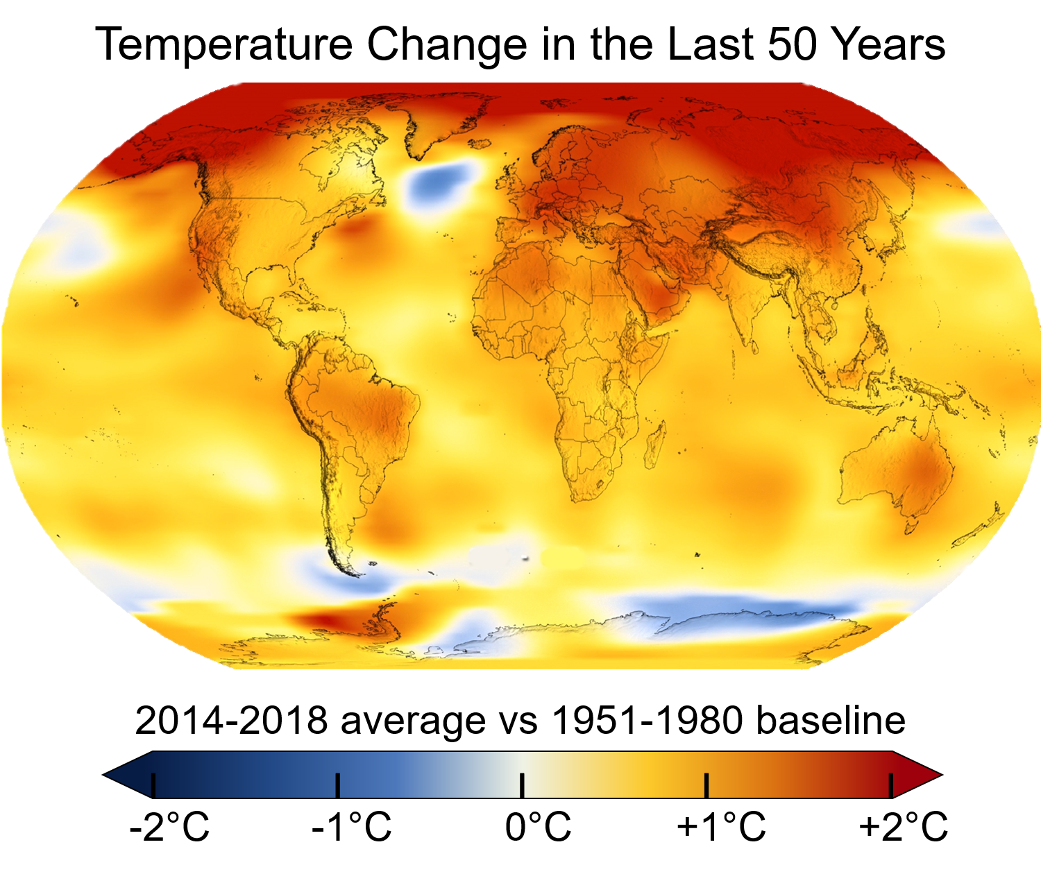 Temperature anomalies to date have been primarily in northern latitudes and over land masses (not accurate for over 50% of image). Credit: NASA’s Scientific Visualization Studio.